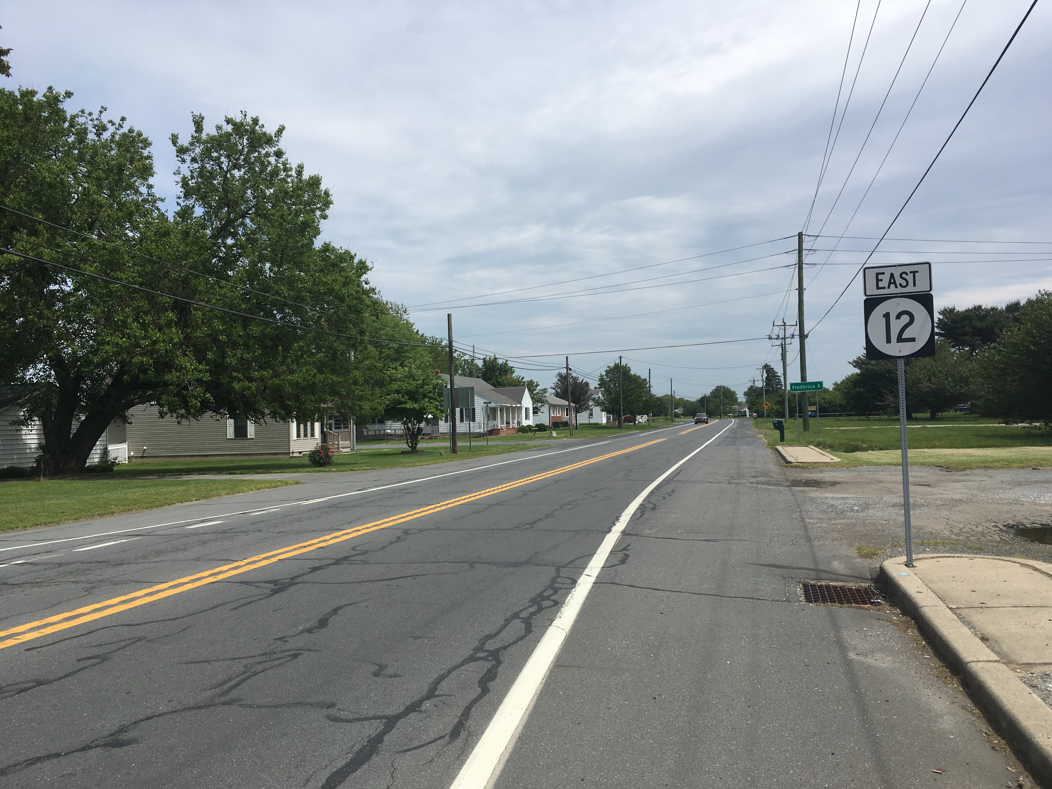 Eastbound Delaware Route 12 (Midstate Road) past the intersection with U.S. Route 13 (Dupont Highway) in Felton, Delaware